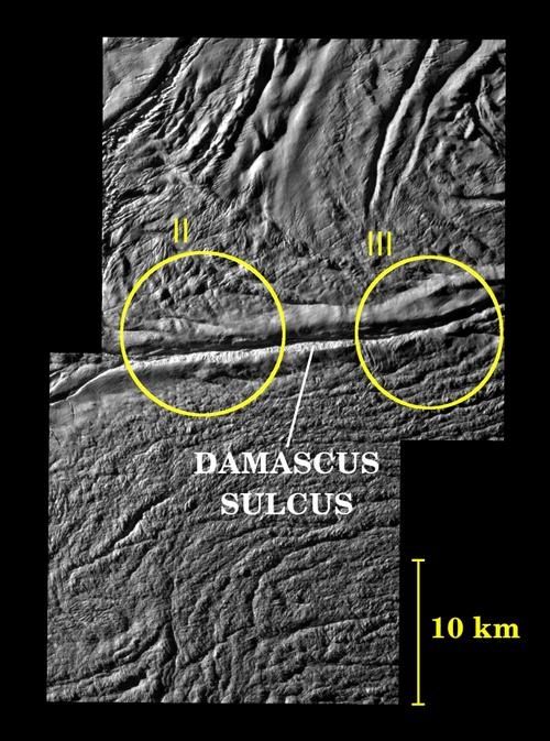 Jets of Enceladus ( indicated by two yellow circles )